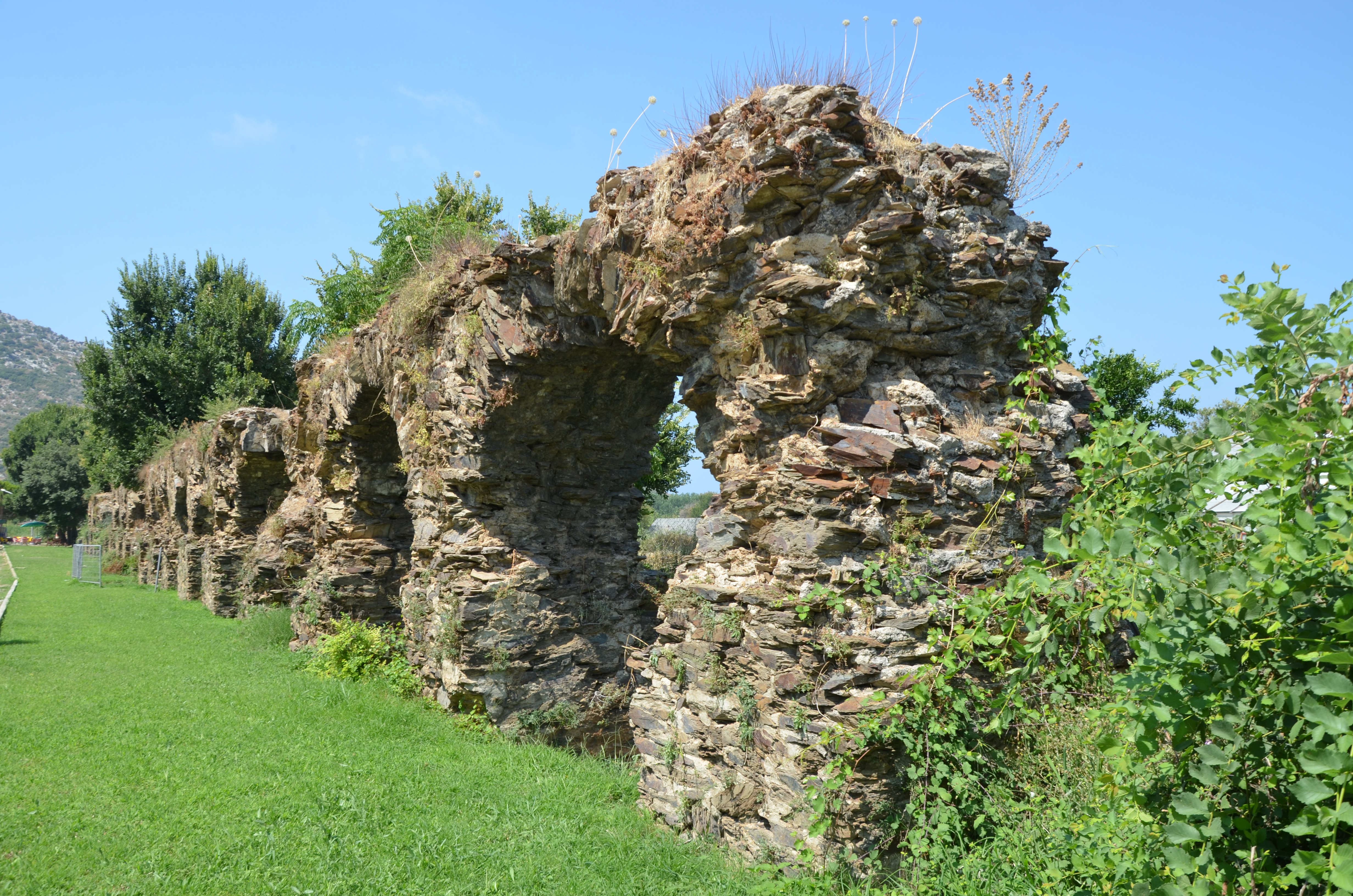 The aqueduct of Selinus, Cilicia, Turkey